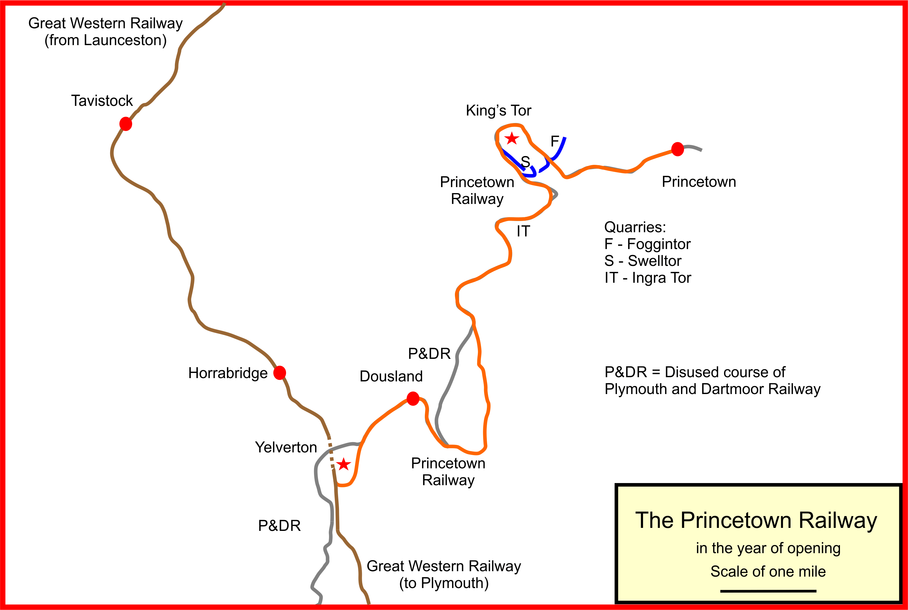 Map of Princetown Railway, Devon, England at time of opening